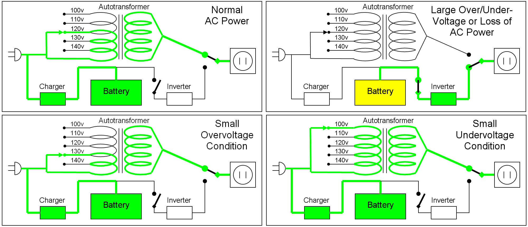 A simple explanation of how a Line-Interactive UPS works.